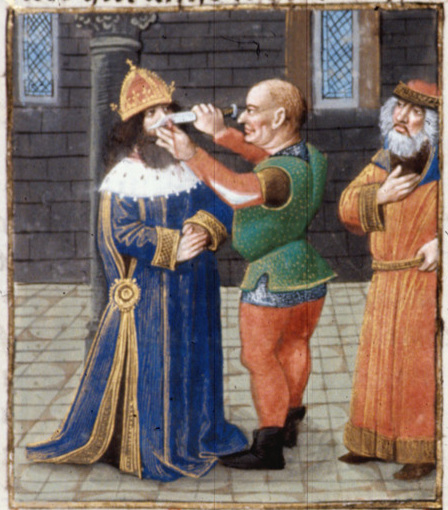 Giovanni Boccaccio, translated by Laurent de Premierfait "Des Cas des nobles hommes et femmes (De casibus virorum illustrium in French translation)"- f. 464 Origin - Netherlands, S. (Bruges), BL Royal 14 E V